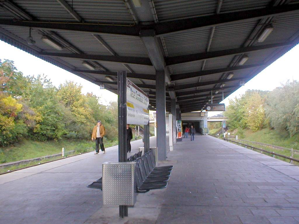 the Berlin U-Bahn station Neue Grottkauer Straße, line U5